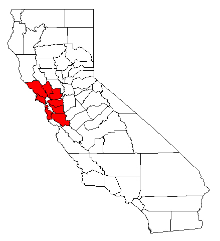 San Francisco Bay Area highlighted in red on a map of California